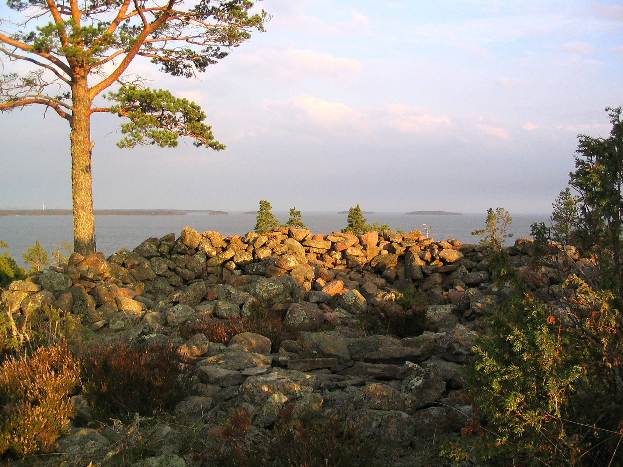 A Bronze Age grave in Pyhtää, Finland.